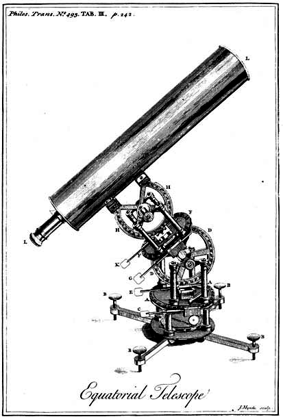 James Short’s reflecting telescope with equatorial mount